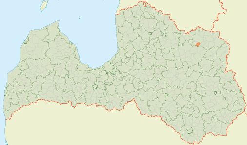 Location of Kalncempji Parish in Latvia